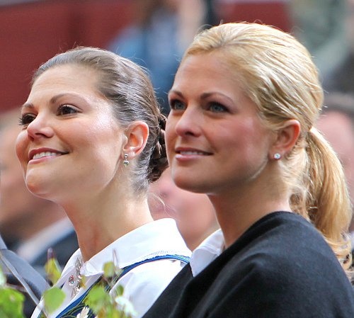 Victoria, Crown Princess of Sweden and her sister Princess Madeleine on Sweden's National Day June 6 2009 at Skansen in Stockholm.